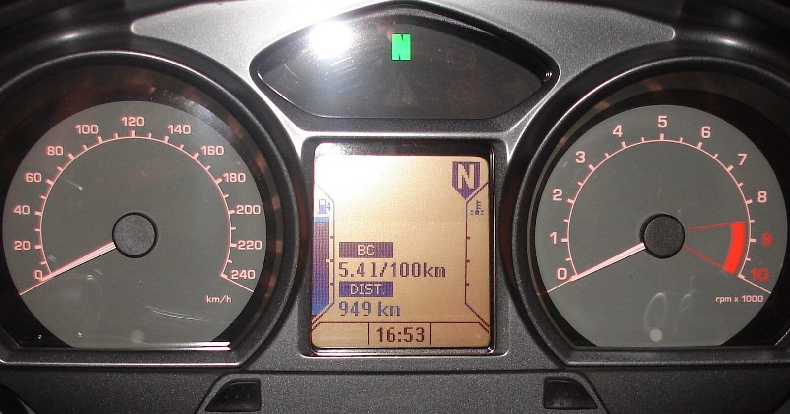 The actual trip computer function of a 2010 BMW R1200RT shows the fuel gauge, driver's average fuel consumption (in l/100 km), total distance, indicator of engine oil temperature and time.